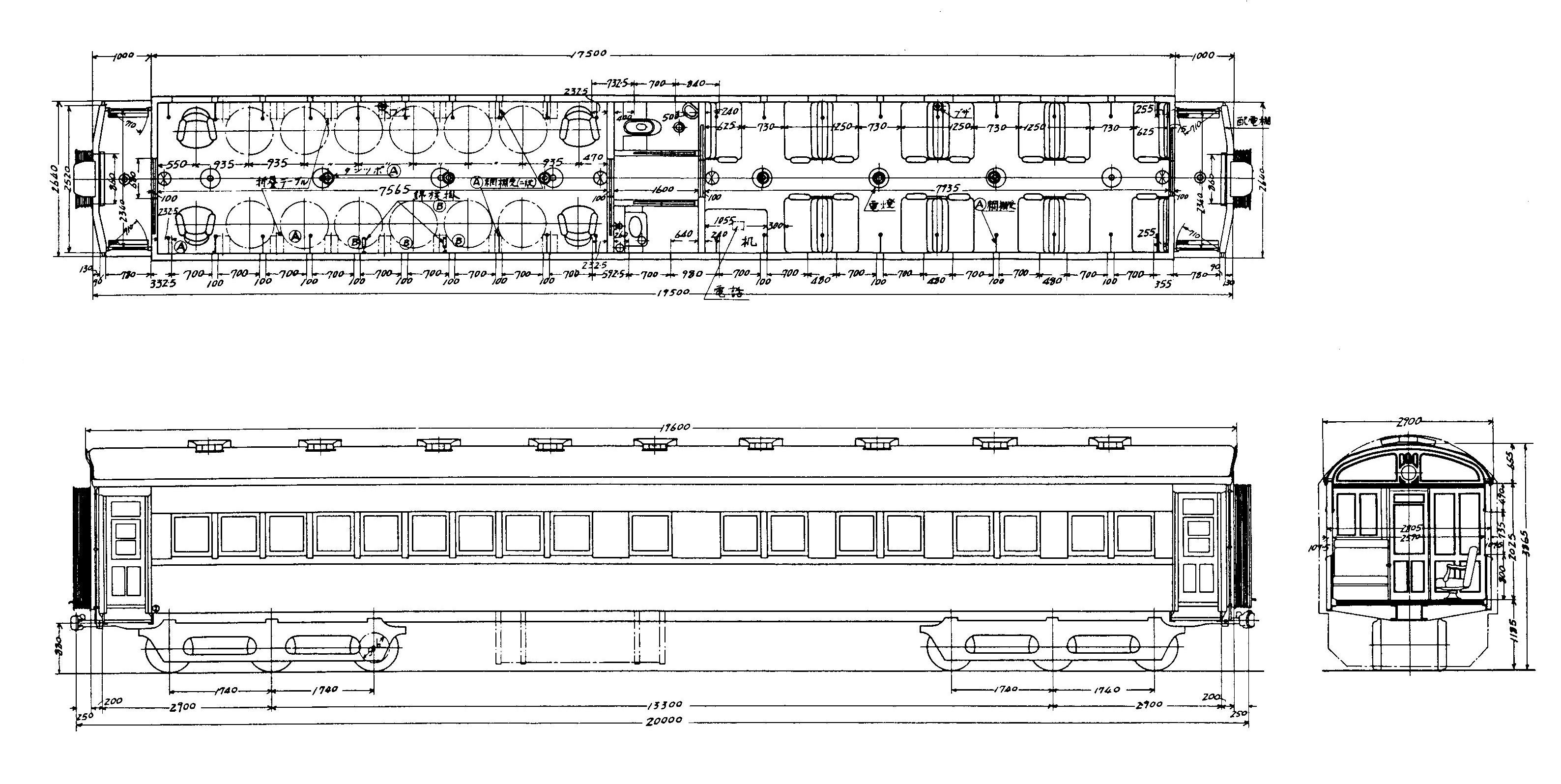 Type drawing of JGR's royal passenger car Gubusha No.340 (Original)